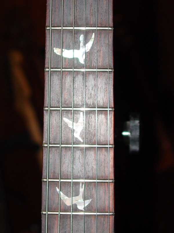 Close-up of the 3rd, 5th, and 7th fret bird inlays, photo by T. Wesley.